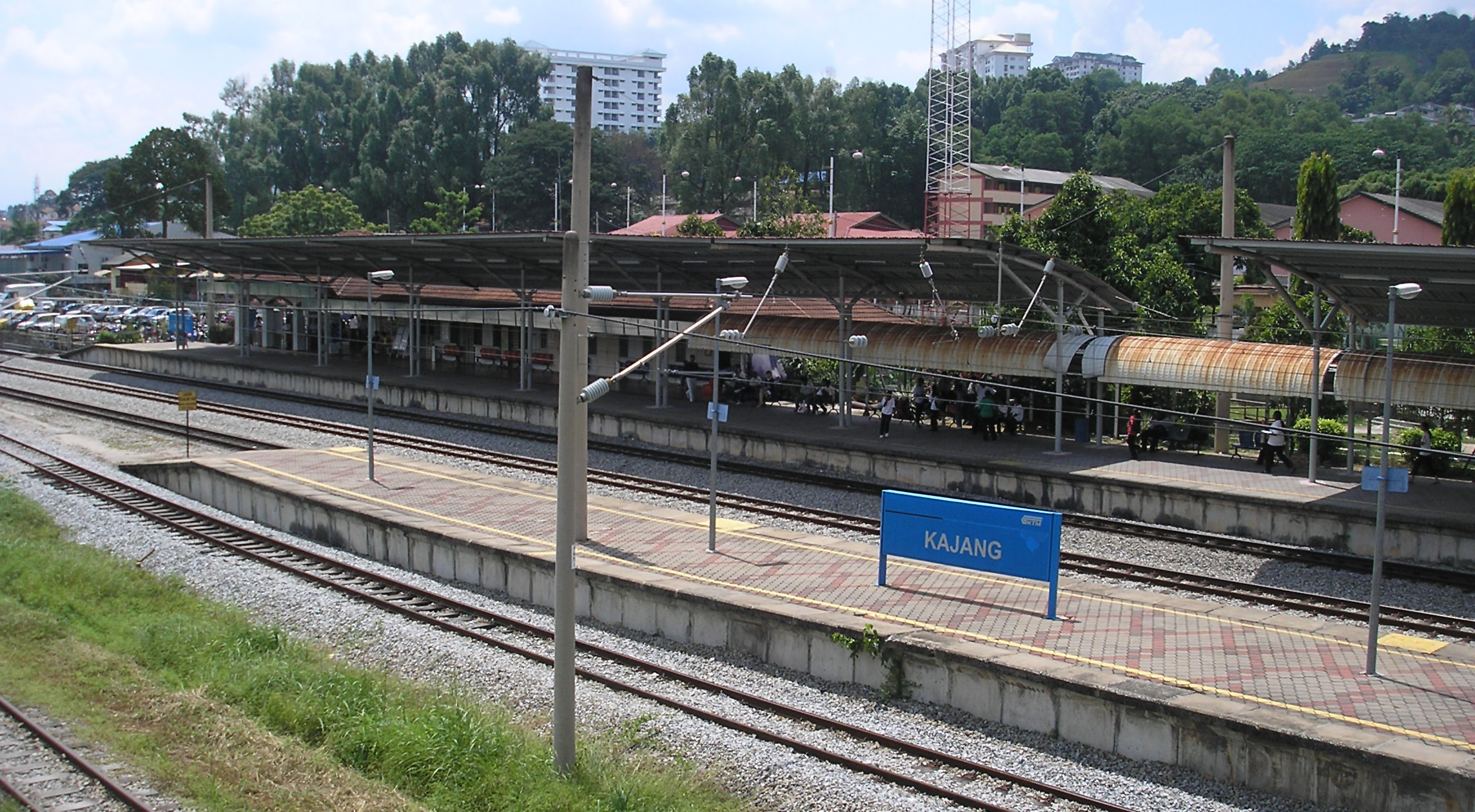 Platform view of the Kajang railway station, Kajang, Selangor, Malaysia.